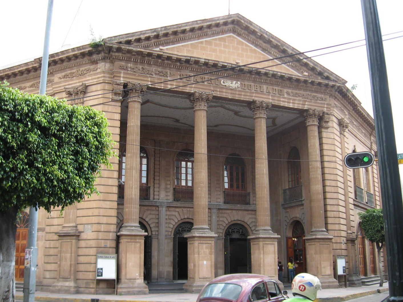 The "Teatro Doblado" or "Folded Theature" located in the centro historico of Leon Guanajuato